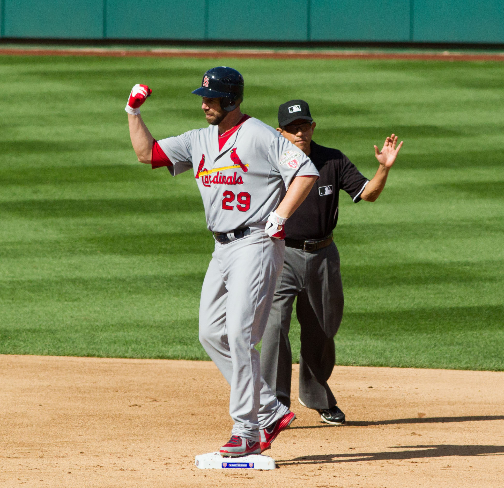 Chris Carpenter flexing his surgically repaied arm and shoulder while standing on second base. NLDS Game 3. Oct. 10, 2012.